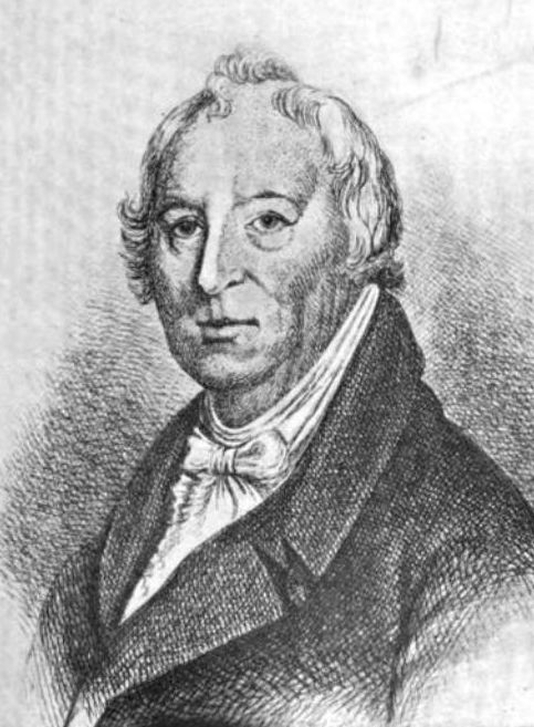 General William Hull, who surrendered Detroit to the British during the War of 1812